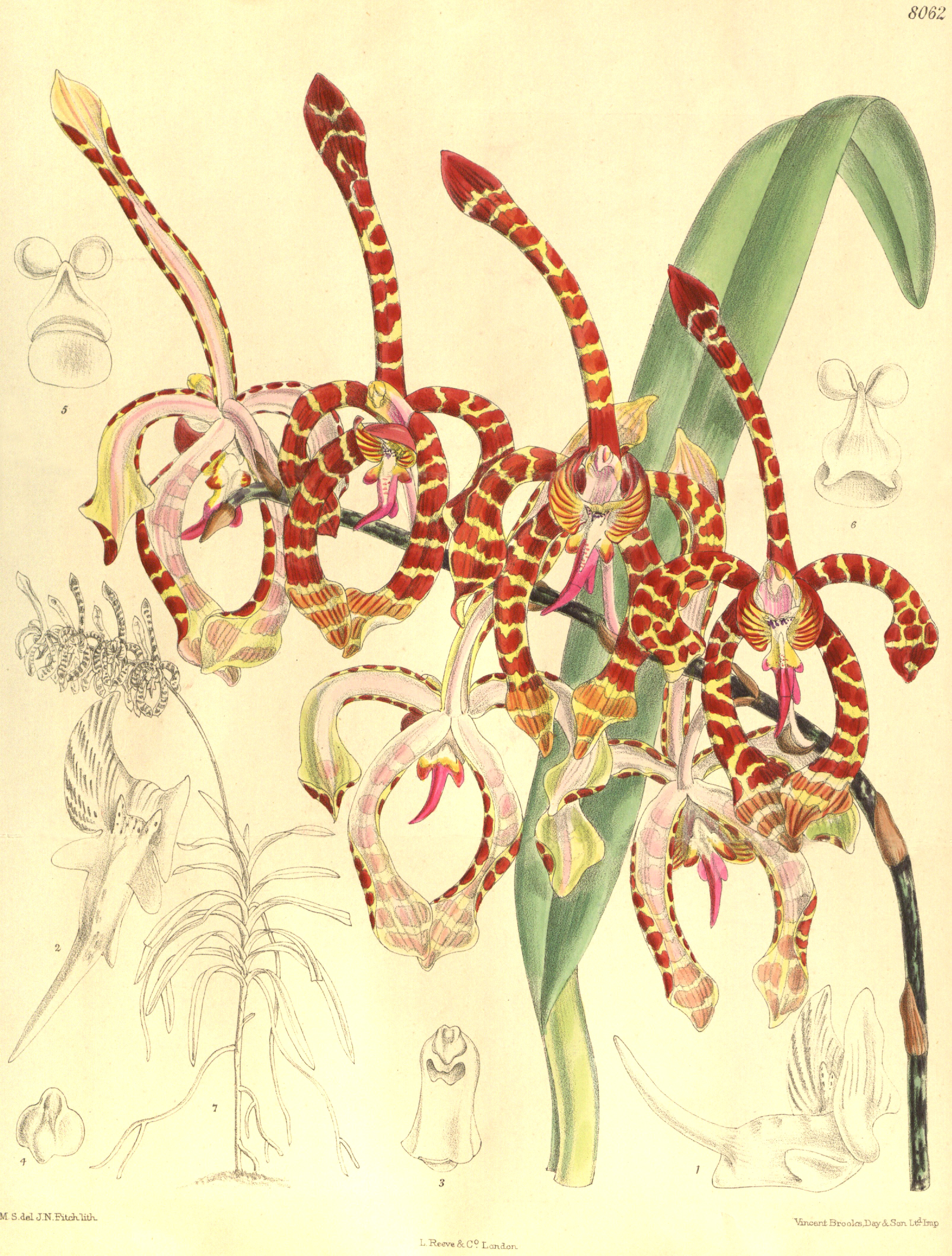 Illustration of Arachnis annamensis (as syn. Arachnanthe annamensis)